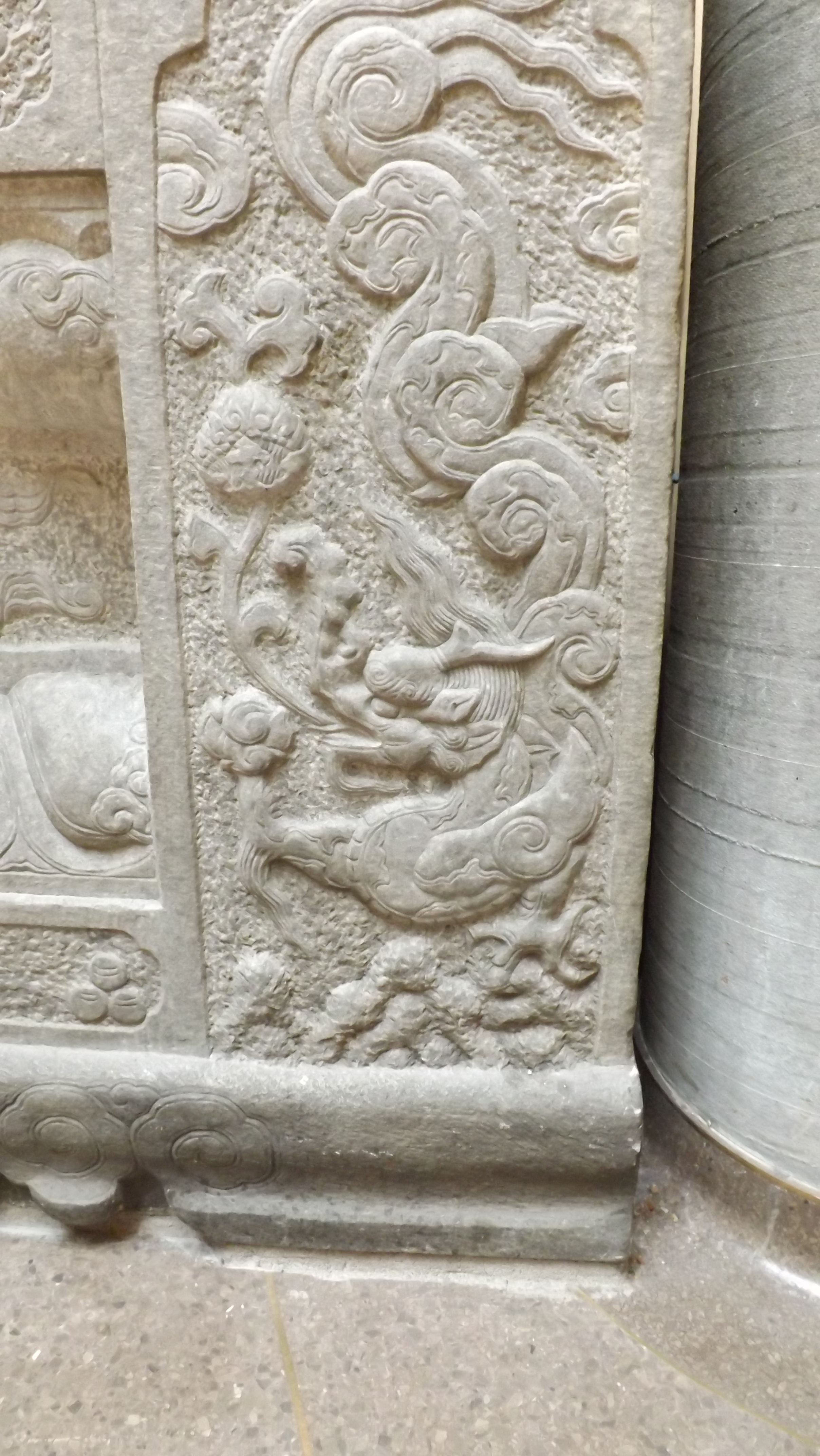 Ming Tomb archway, Royal Ontario Museum